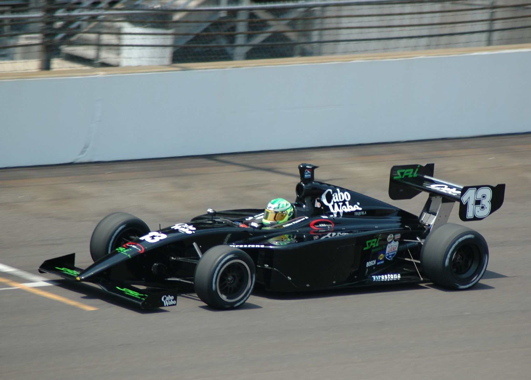 Robbie Pecorari practicing for the 2007 Freedom 100 Indy Pro Series race